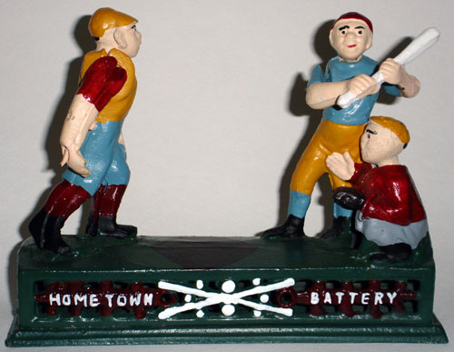 This is a picture of a mechanical bank. I took this picture myself.